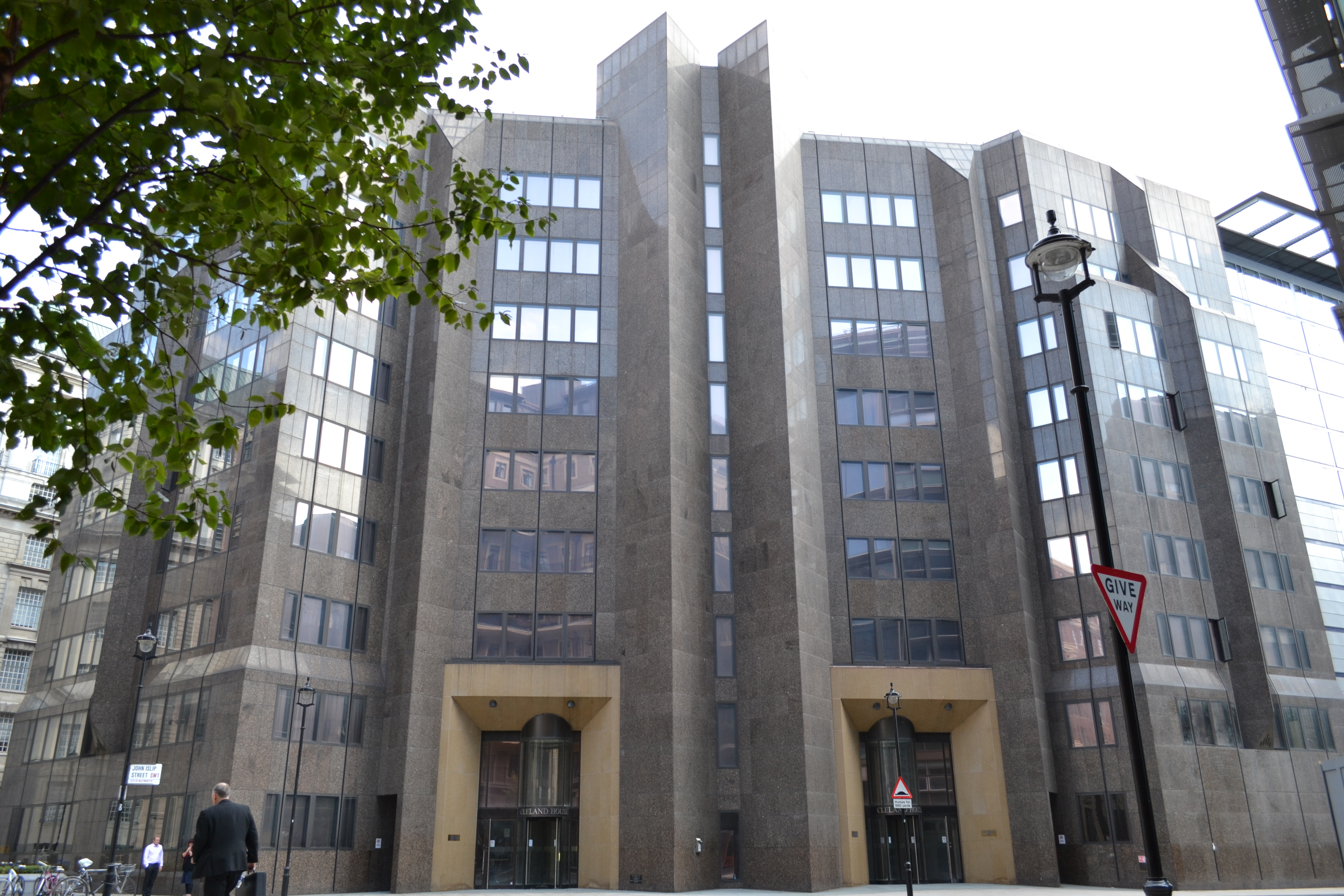 Cleland House, head office of the HM Prison Service - Page Street, London, SW1P 4LN, United Kingdom